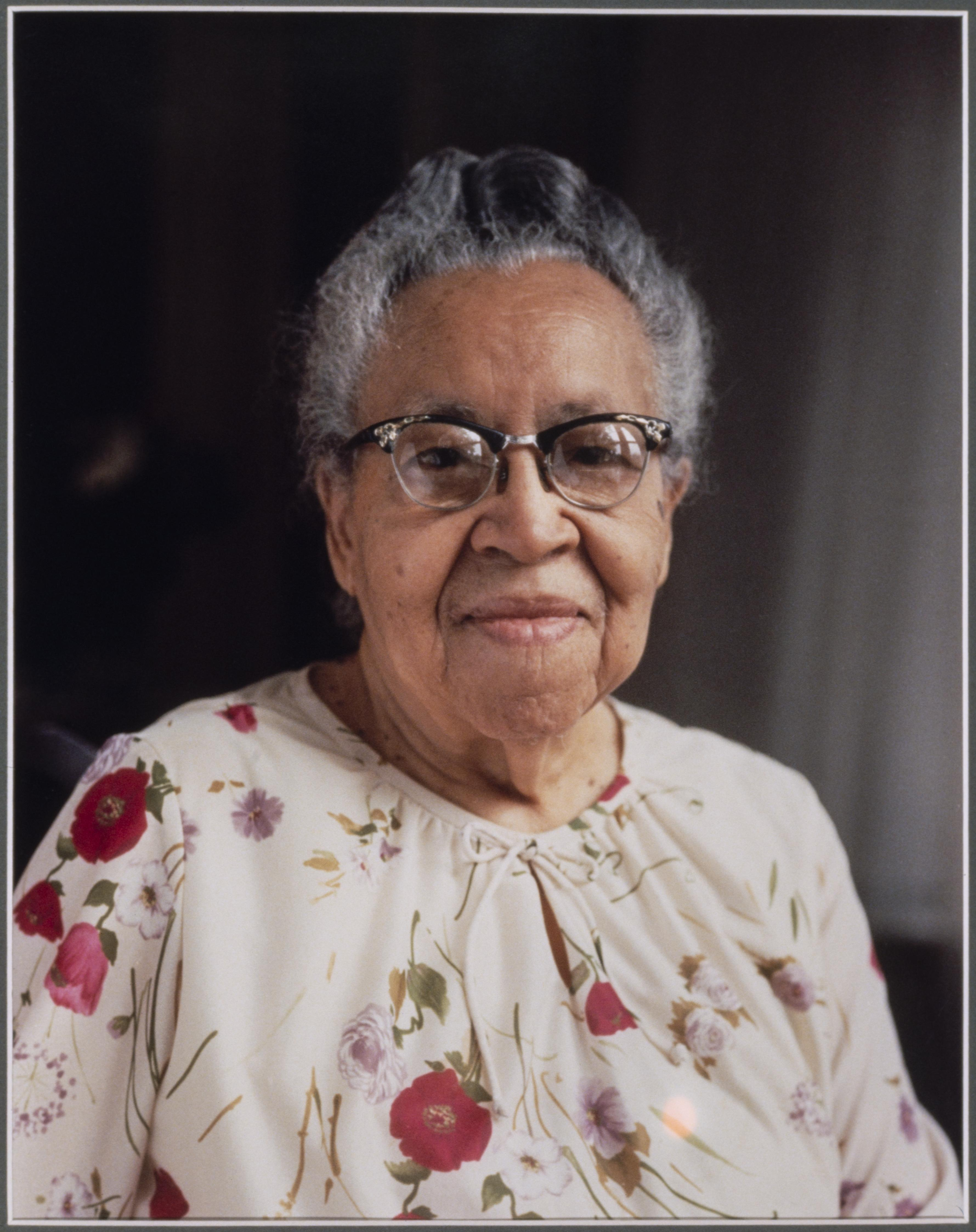 Biography: One of the incorporators of the Alpha Kappa Alpha sorority while a student at Howard University, Norma Boyd taught for more than 35 years in the Washington, D.C., public school system. The second of the three daughters born to Jurrell and Pattie Bullock Boyd, Ms. Boyd was educated in Washington, D.C., and graduated from Howard in 1910. After study at Miner Normal School, she began teaching in 1912. She spent much time taking her students to visit Congress and other institutions to learn about democracy and the political process. She was active in the National Non-Partisan Council on Public Affairs, an organization which lobbied for the improvement of political, economic, and social conditions among minorities and which sought to secure, for all citizens, the opportunity to participate fully in all branches of government at the federal, state, and local levels. Miss Boyd represented the Council as a certified observer at the United Nations, where it was one of the groups submitting recommendations for the United Nations' Declaration of Human Rights. In 1959, she was the founder of the Women's International Religious Fellowship, an organization devoted to fostering understanding among the peoples of the world. She was honored by NCNW in 1947 and AKA in 1975. Description: The Black Women Oral History Project interviewed 72 African American women between 1976 and 1981. With support from the Schlesinger Library, the project recorded a cross section of women who had made significant contributions to American society during the first half of the 20th century. Photograph taken by Judith Sedwick Repository: Schlesinger Library on the History of Women in America. Collection: Black Women Oral History Project Research Guide: Questions?